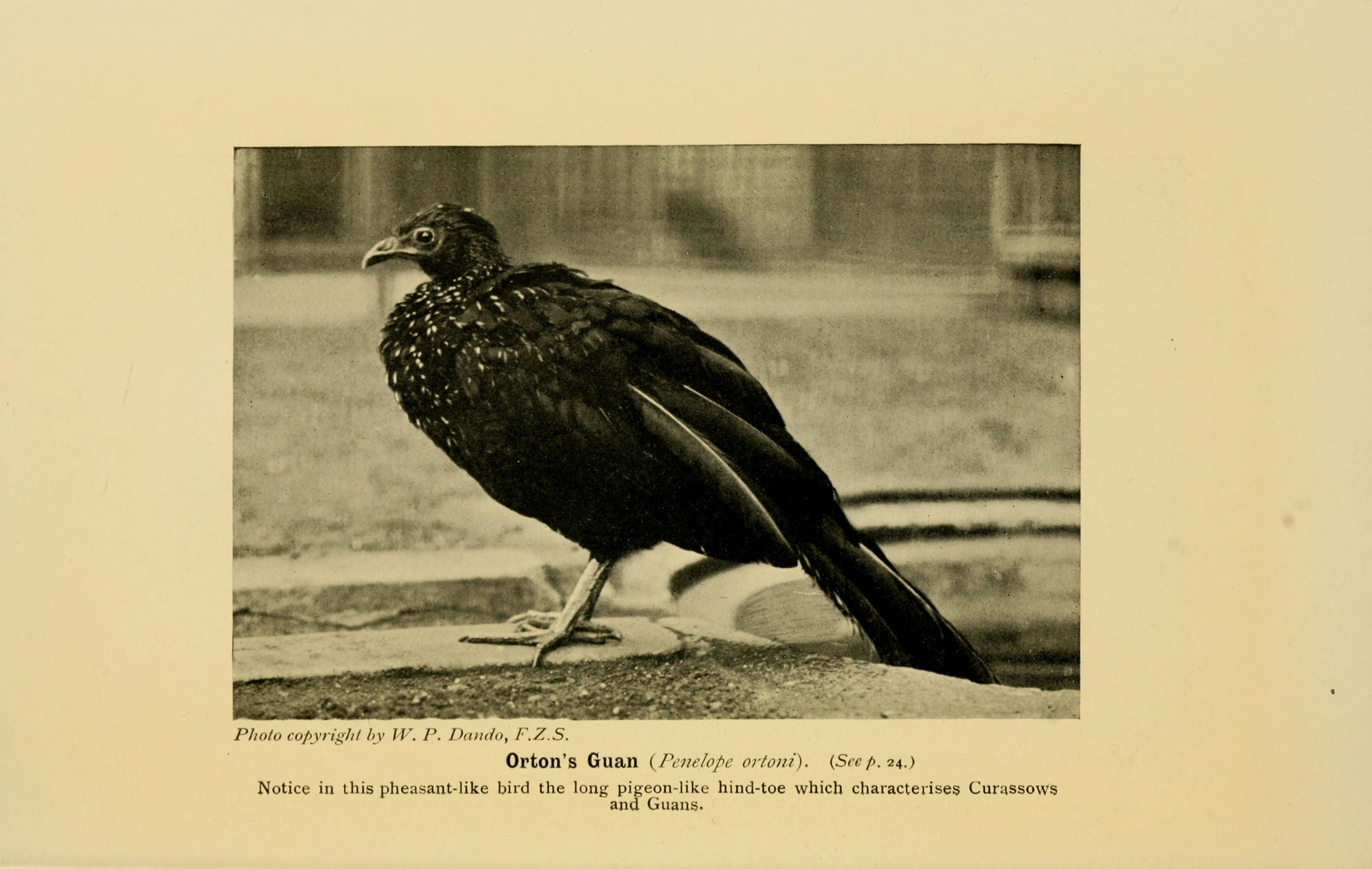 Orton's Guan (Penelope ortoni) Title: The world's birds a simple and popular classification of the birds of the world Year: 1908 (1900s) Authors: Finn, Frank Subjects: Birds Publisher: London, Hutchinson & co. Text Appearing Before Image: ' Text Appearing After Image: THE WORIiDS BIRDS. 33 America the Black-billed and Yellow-billed Cuckoos(Coccyzus erythrophthalmus and C. americanus) arefamiliar birds; they build open twig-nests andlay blue eggs, but, like our species, which they donot equal in size, eat hairy caterpillars. Incolour they are light drab above and white below.In New Zealand there are two migratory species,the small bronze-green Chalcococcyx lucidtts andthe long-tailed Urodynamis taitensis, colouredsomething like a hen kestrel, which is beginningto parasitize the acclimatized English birds as wellas native species. CuRASSOWS (Cracidce). Diagnosis.—Large fowl-like birds, with long flat tails,well developed hind-toe, and all front toes connectedat base by web. Size.—From that of a hen turkey to that of a bantam; Yomn.— Bill short, sometimes stout, often enlarged atbase of forehead. Feet with medium shanks andfour toes, the hinder well developed and set low,-the front ones connected by webs at base, the clawscurved. Wings short and